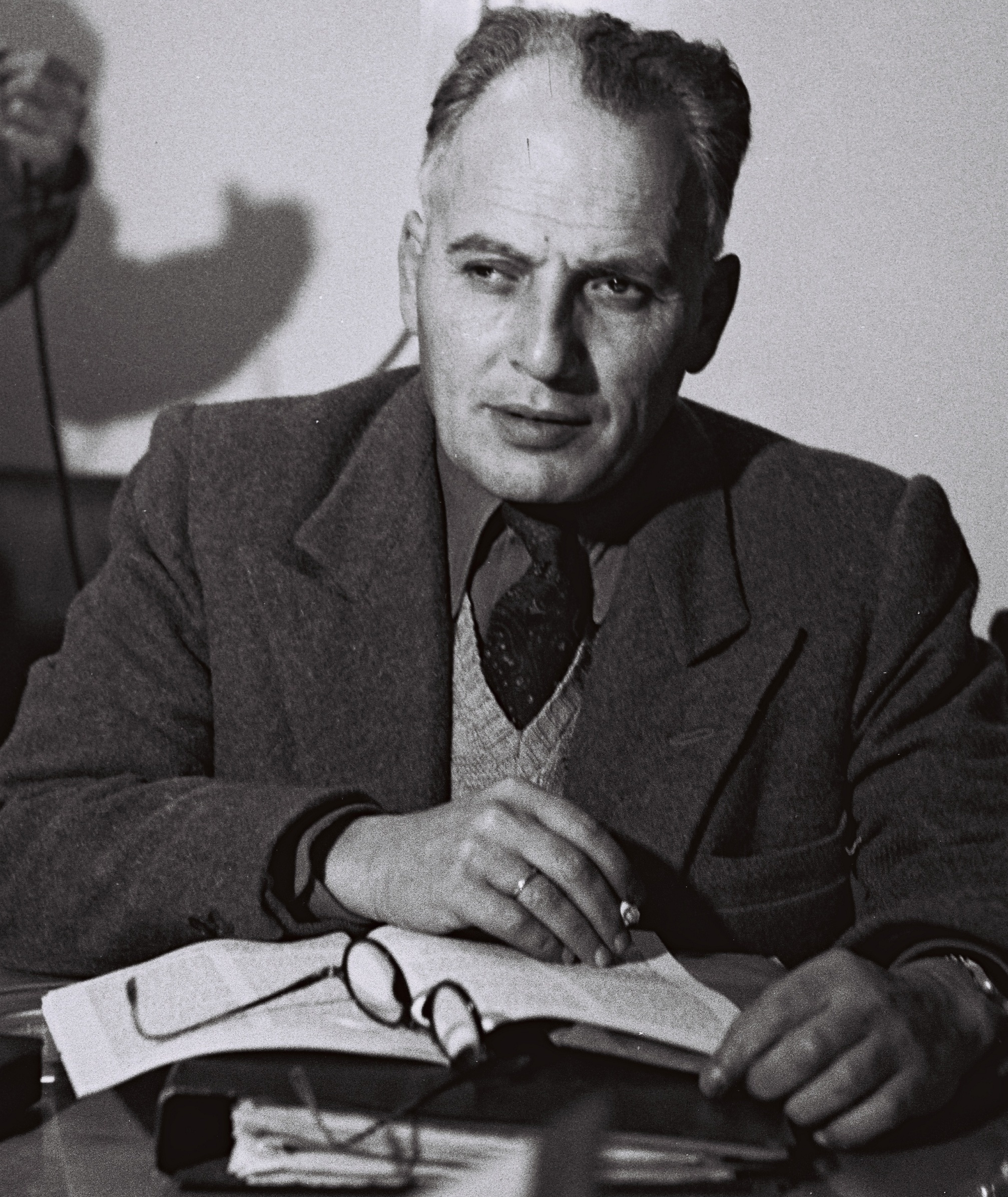 Bechor-Shalom Shitreet